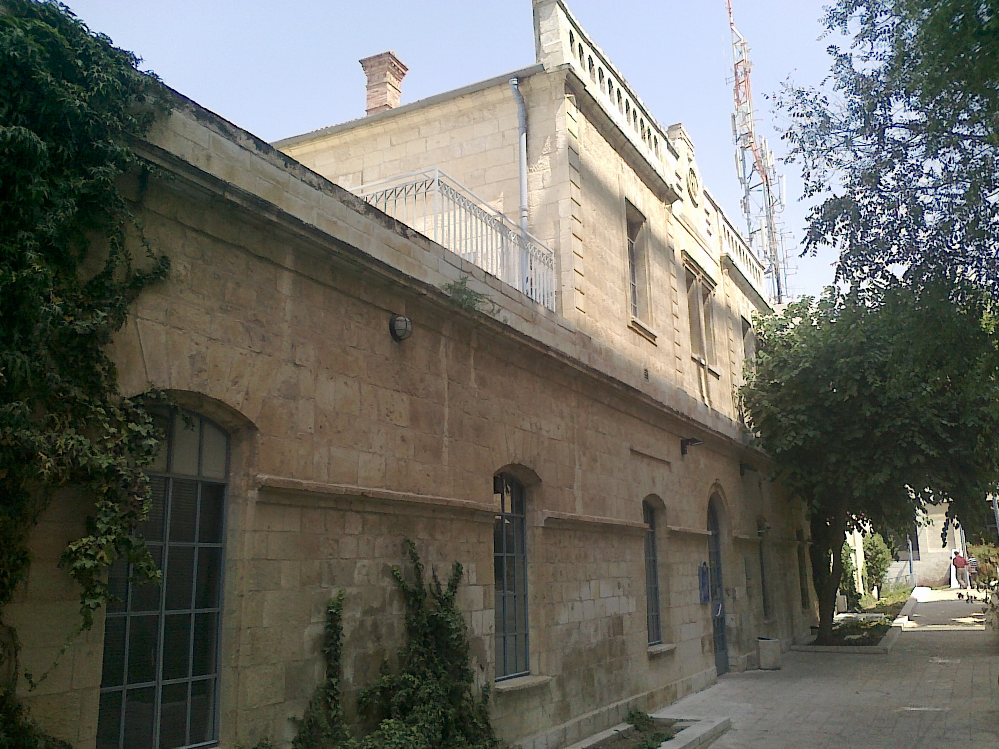 building number two in Safra square (Jerusalem's city hall). Formerly the Russian consulate, today it houses the Jerusalem development authority.